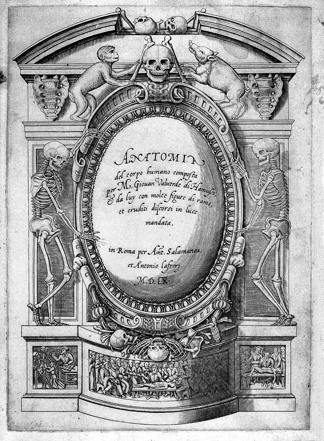 Title page. Rare Books Keywords: Anatomy